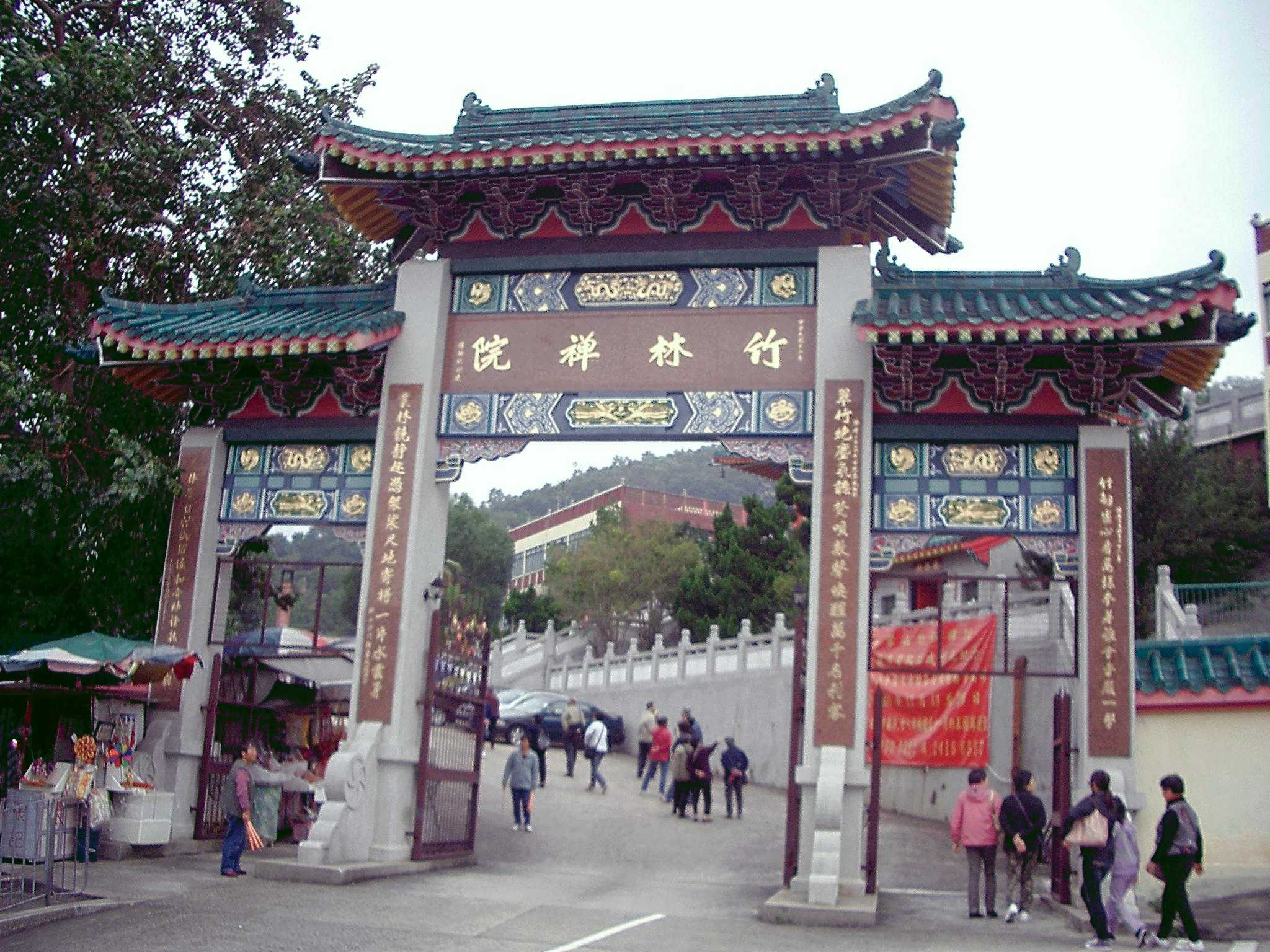 Main Gate, Chuk Lam Sim Monastery, Fu Yung Shan, Tsuen Wan, Hong Kong